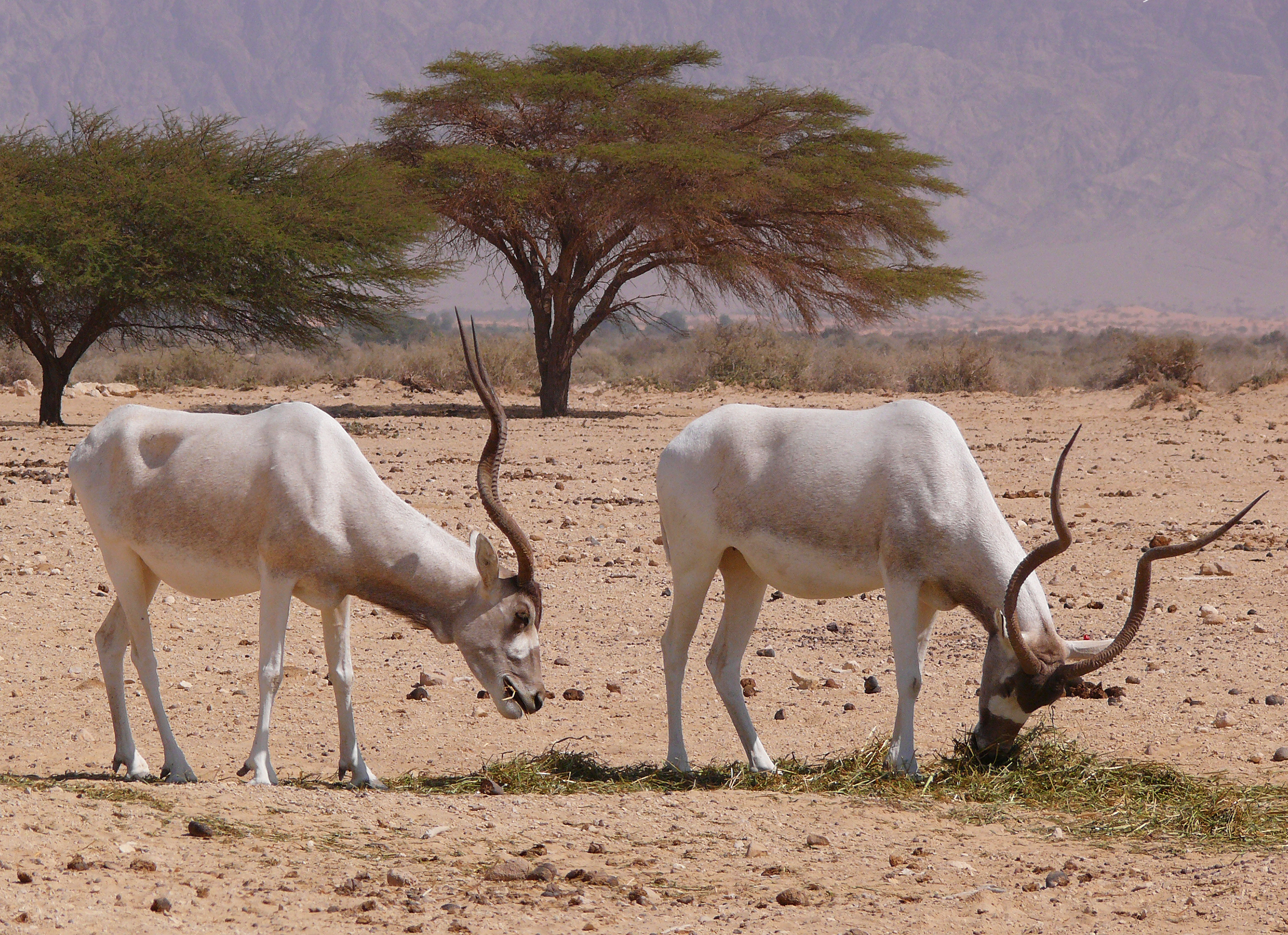 Addax nasomaculatus, Hai-Bar Yotvata Nature Reserve, Israel